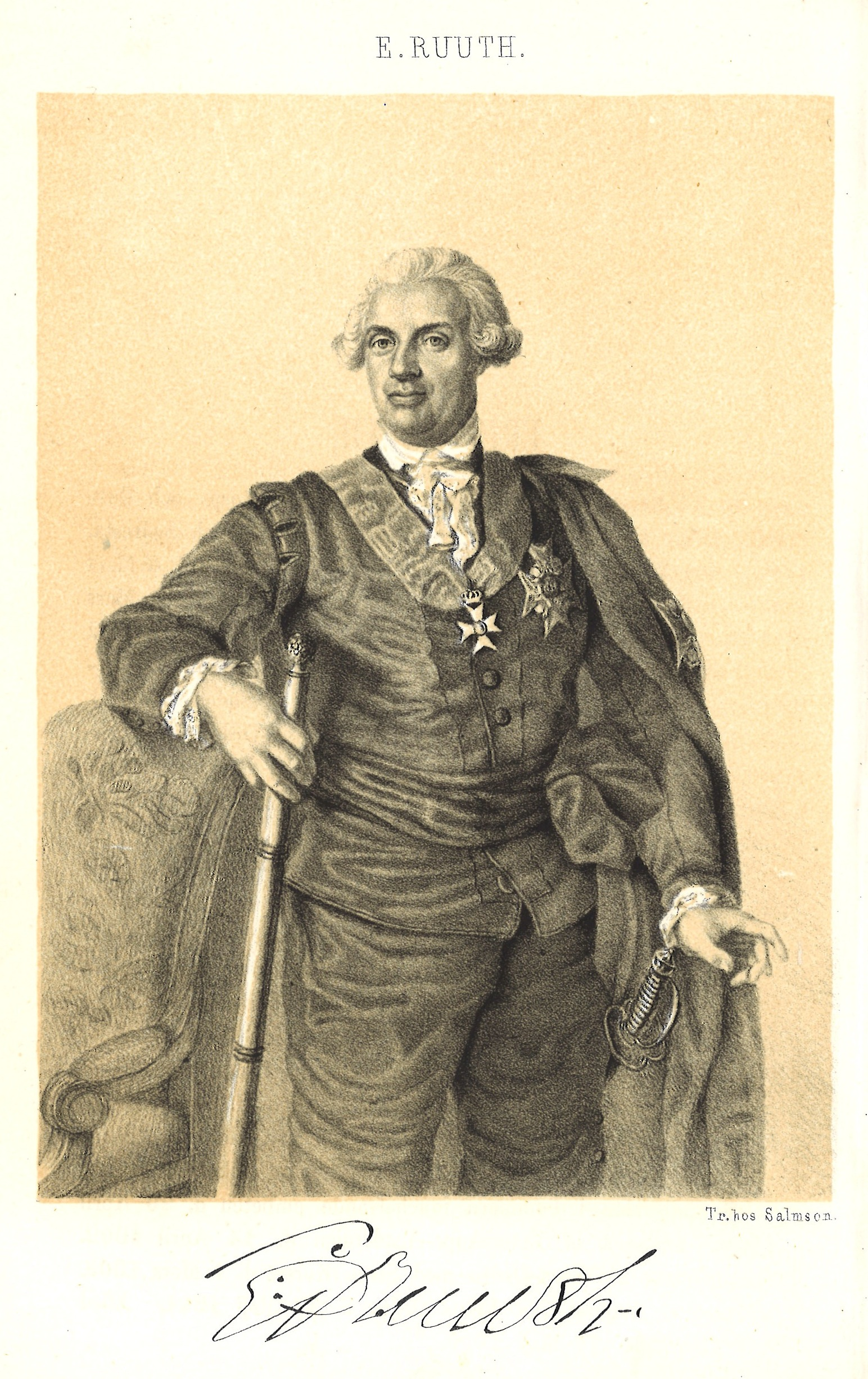 Eric Ruuth (1746-1820), Swedish count, industrialist, minister of finance and "lantmarskalk" (chairman of the estate of nobility).